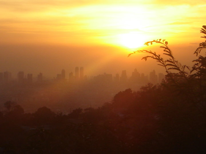 Ortigas Skyline sunset